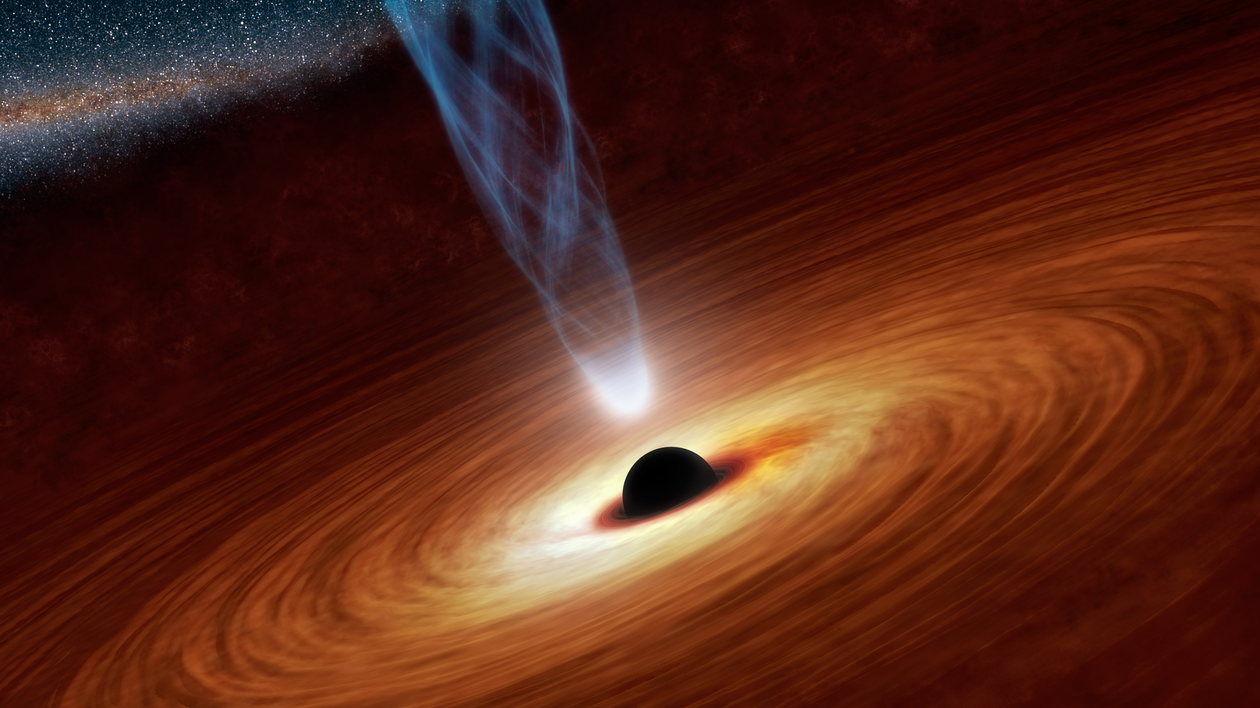 This artist's concept illustrates a supermassive black hole with millions to billions times the mass of our sun. Supermassive black holes are enormously dense objects buried at the hearts of galaxies. (Smaller black holes also exist throughout galaxies.) In this illustration, the supermassive black hole at the center is surrounded by matter flowing onto the black hole in what is termed an accretion disk. This disk forms as the dust and gas in the galaxy falls onto the hole, attracted by its gravity. Also shown is an outflowing jet of energetic particles, believed to be powered by the black hole's spin. The regions near black holes contain compact sources of high energy X-ray radiation thought, in some scenarios, to originate from the base of these jets. This high energy X-radiation lights up the disk, which reflects it, making the disk a source of X-rays. The reflected light enables astronomers to see how fast matter is swirling in the inner region of the disk, and ultimately to measure the black hole's spin rate.